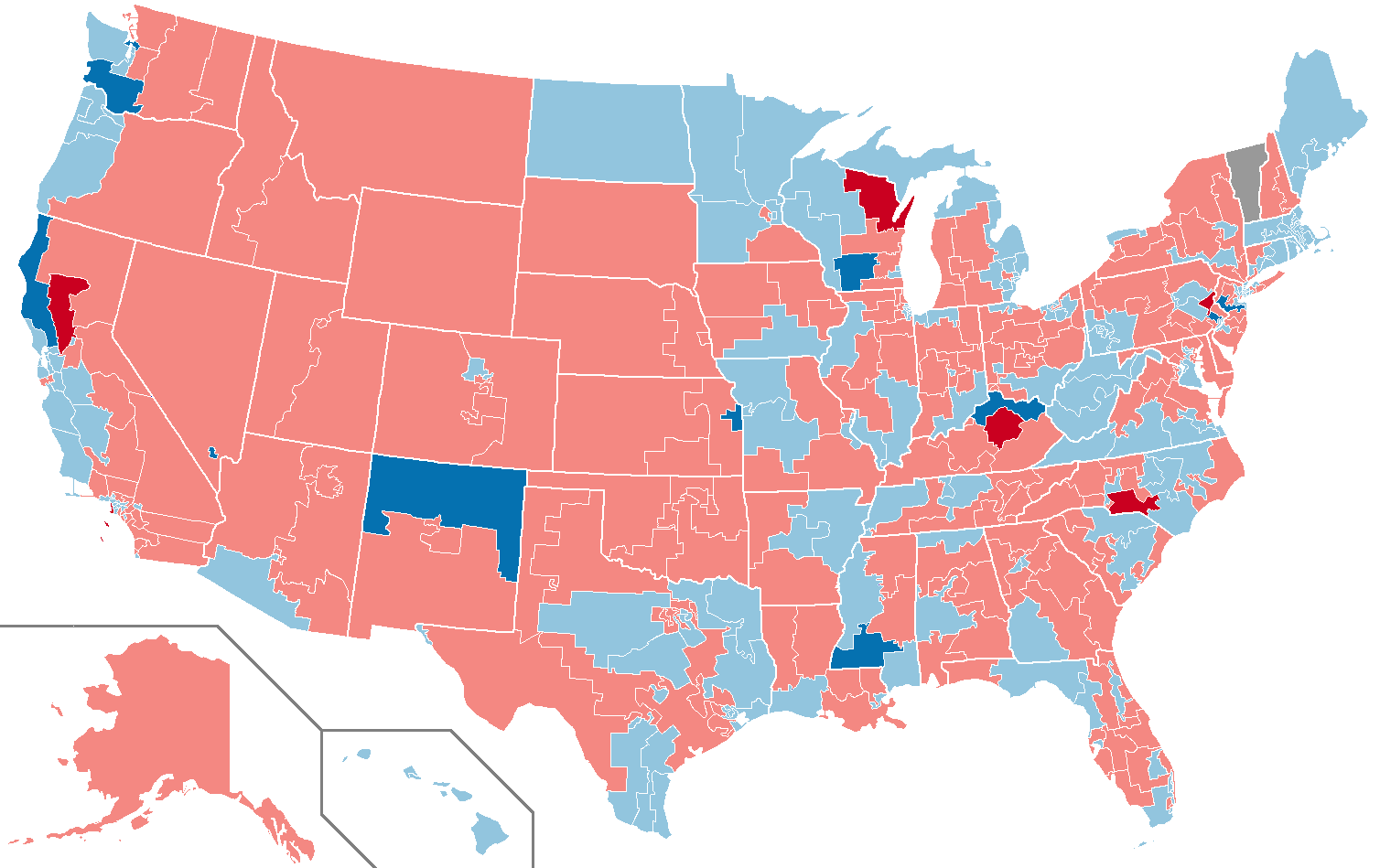 1998 House of Representatives election map Democratic hold Democratic pickup Republican hold Republican pickup Independent hold